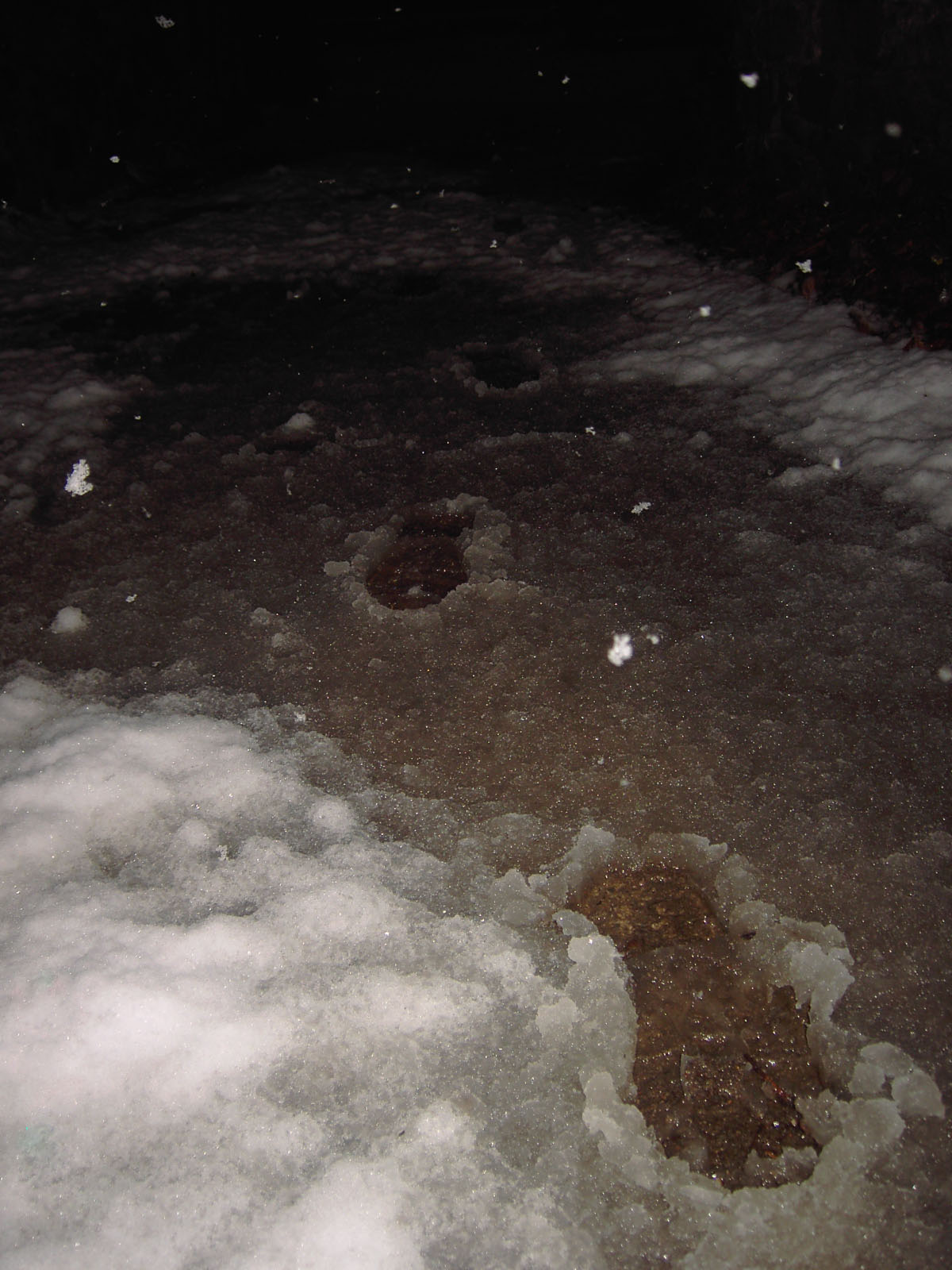 Foot prints in the snowmelt. Aragonés: Pisadas en as auguaspotras.